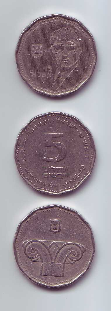 5 NIS Shekel. The top coin is in iprint of Levi Eshkol (לוי אשכול). The bottom two are one coin from התש"ס